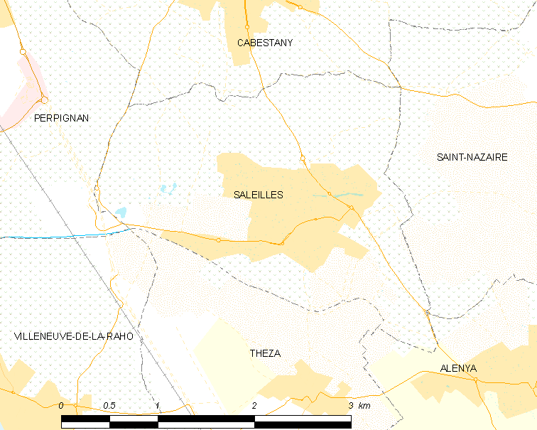 Map of French municipality